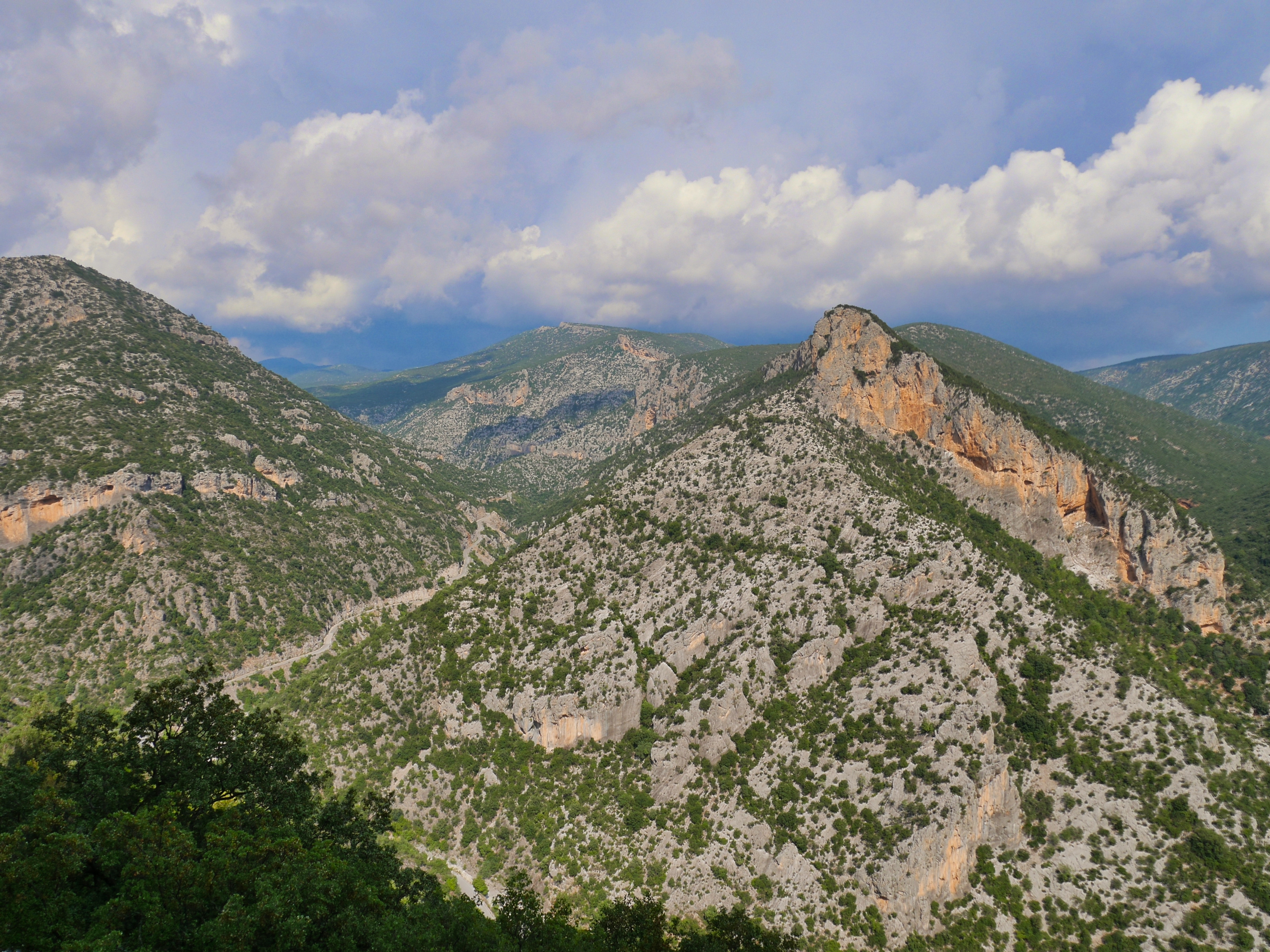 Landscape in Parnonas hills west of Leonidio